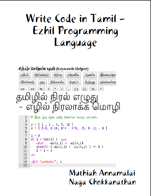 WriteCodeInTamil EzhilBook Cover for Tamil Programming Language Ezhil